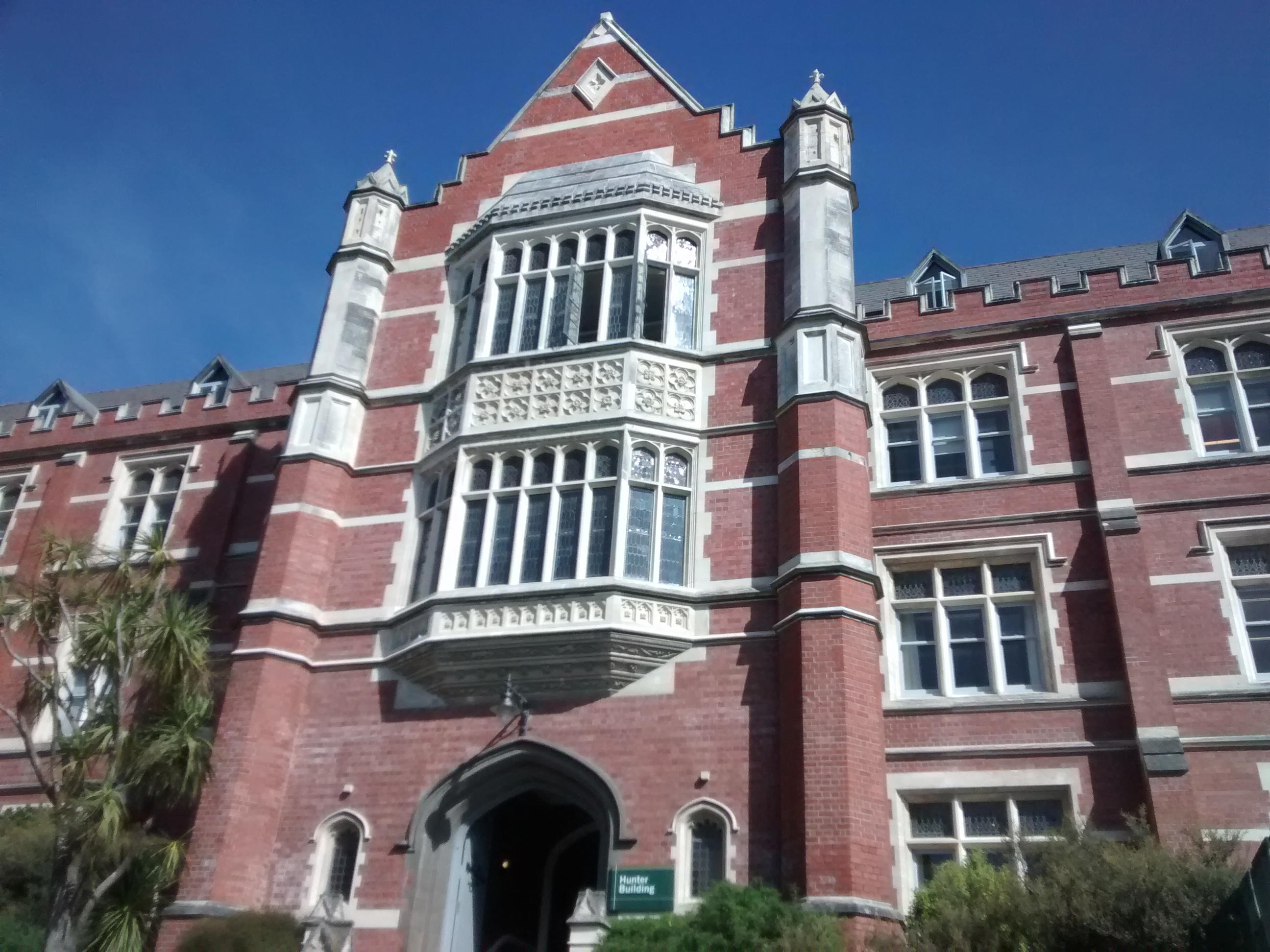 The Hunter Building at Victoria University of Wellington in 2014